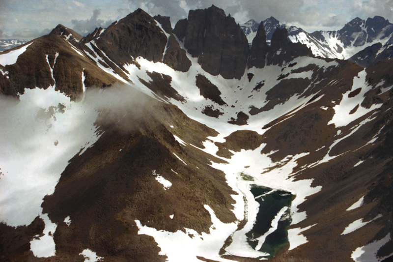 Katmai National Park and Preserve, Alaska, USA, volcanic mountains of the Aleutian Range from a floatplane heading to Brooks Falls area, landing on Naknek Lake.